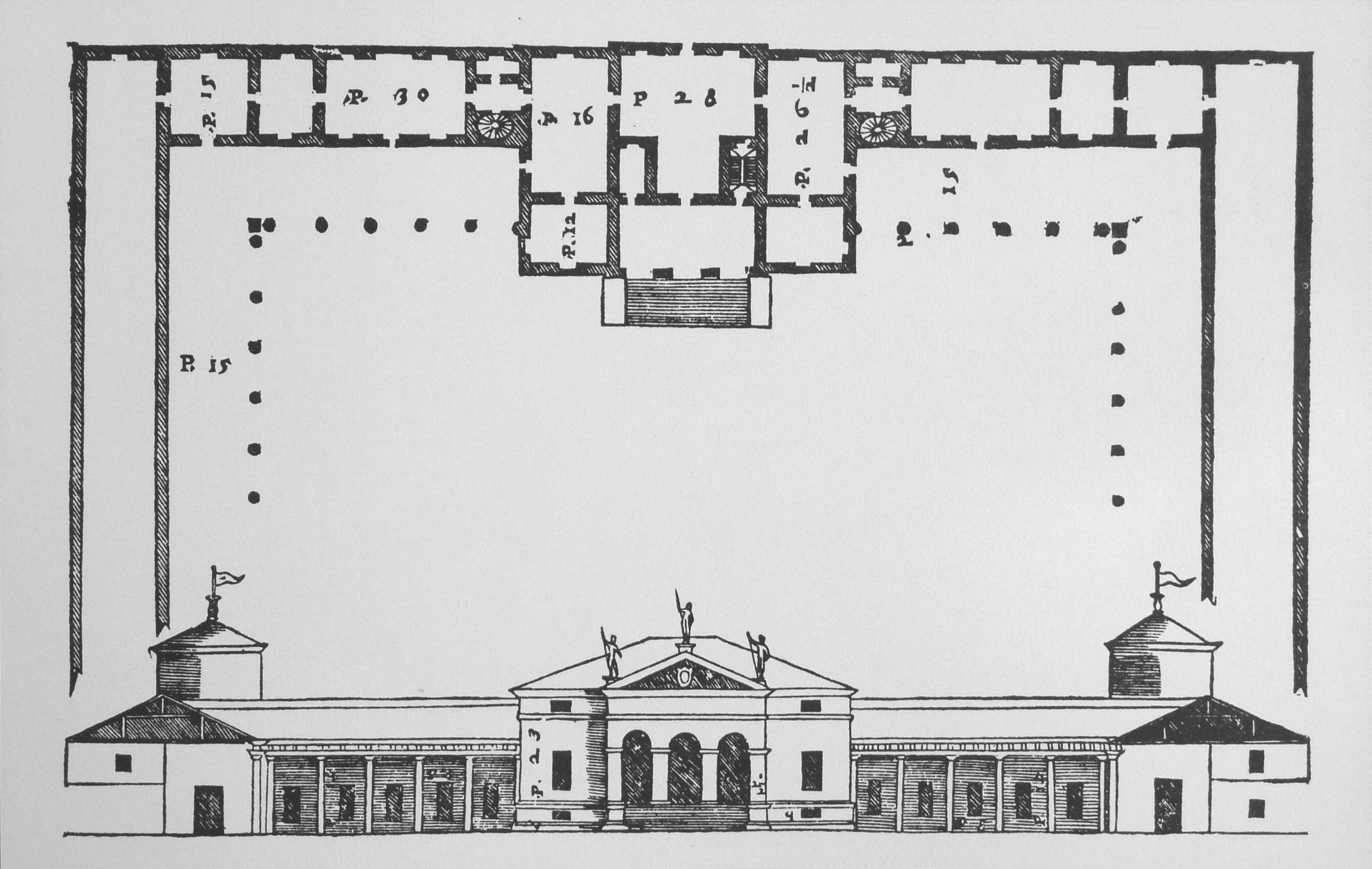 Plan et front facade of the villa Saraceno from I Quattro Libri dell'Architettura.